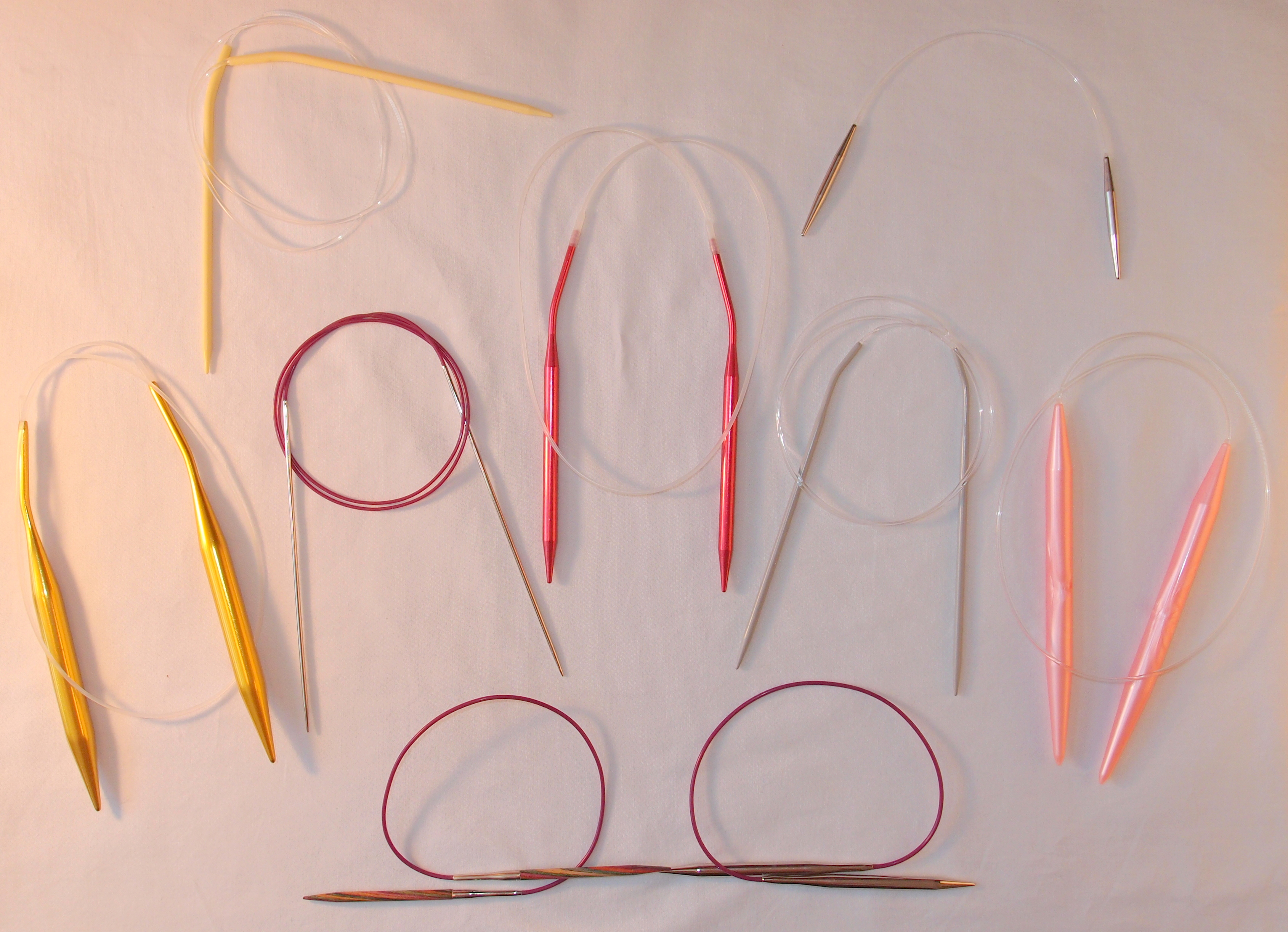 A selection of circular knitting needles in various sizes, materials and lengths. Description runs from left to right. Top row - US Size 4 - Flexible plastic 24", Size 6 - Steel 9" Middle row - Size 15 - Aluminum 24", Size 0 - Nickel plated brass 36", Size 9 - Anodized Aluminum 29", Size 3 - Coated aluminum 29", Size 15 - Plastic 24" Bottom row - Size 6 - Laminated wood 16", Size 9 - Nickle plated brass 16"